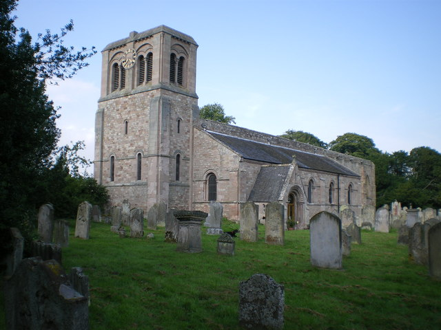 St Cuthbert's Church, Norham A church has stood on this site since the year 830, but it has been substantially altered, extended and changed over the years. The tower houses a clock and bell which are affectionately known as 'Charlie' in honour of a local clockmaker who installed it in 1887.